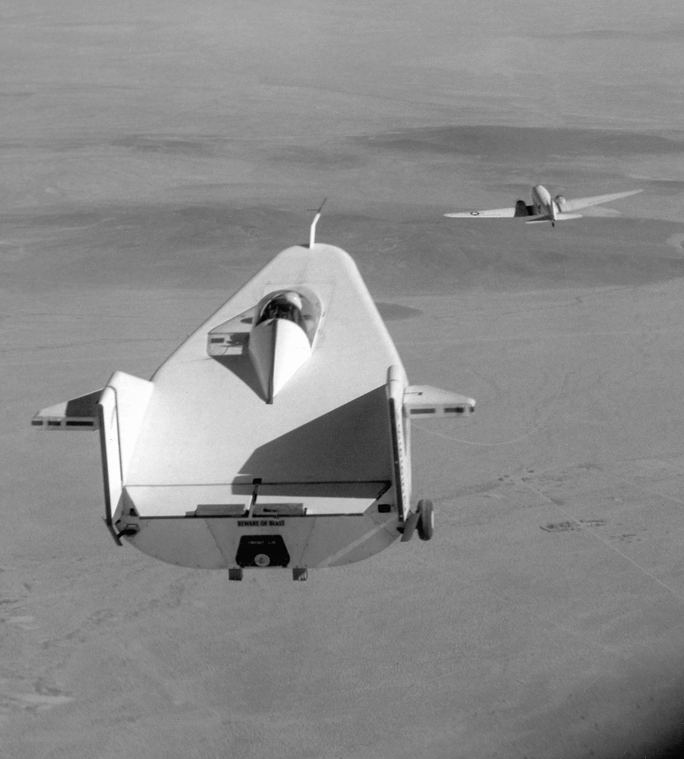 The M2-F1 lifting body is seen here being towed behind a C-47 at the Flight Research Center (later redesignated the Dryden Flight Research Center), Edwards, California. The wingless, lifting body aircraft design was initially conceived as a means of landing an aircraft horizontally after atmospheric re-entry. The absence of wings would make the extreme heat of re-entry less damaging to the vehicle.